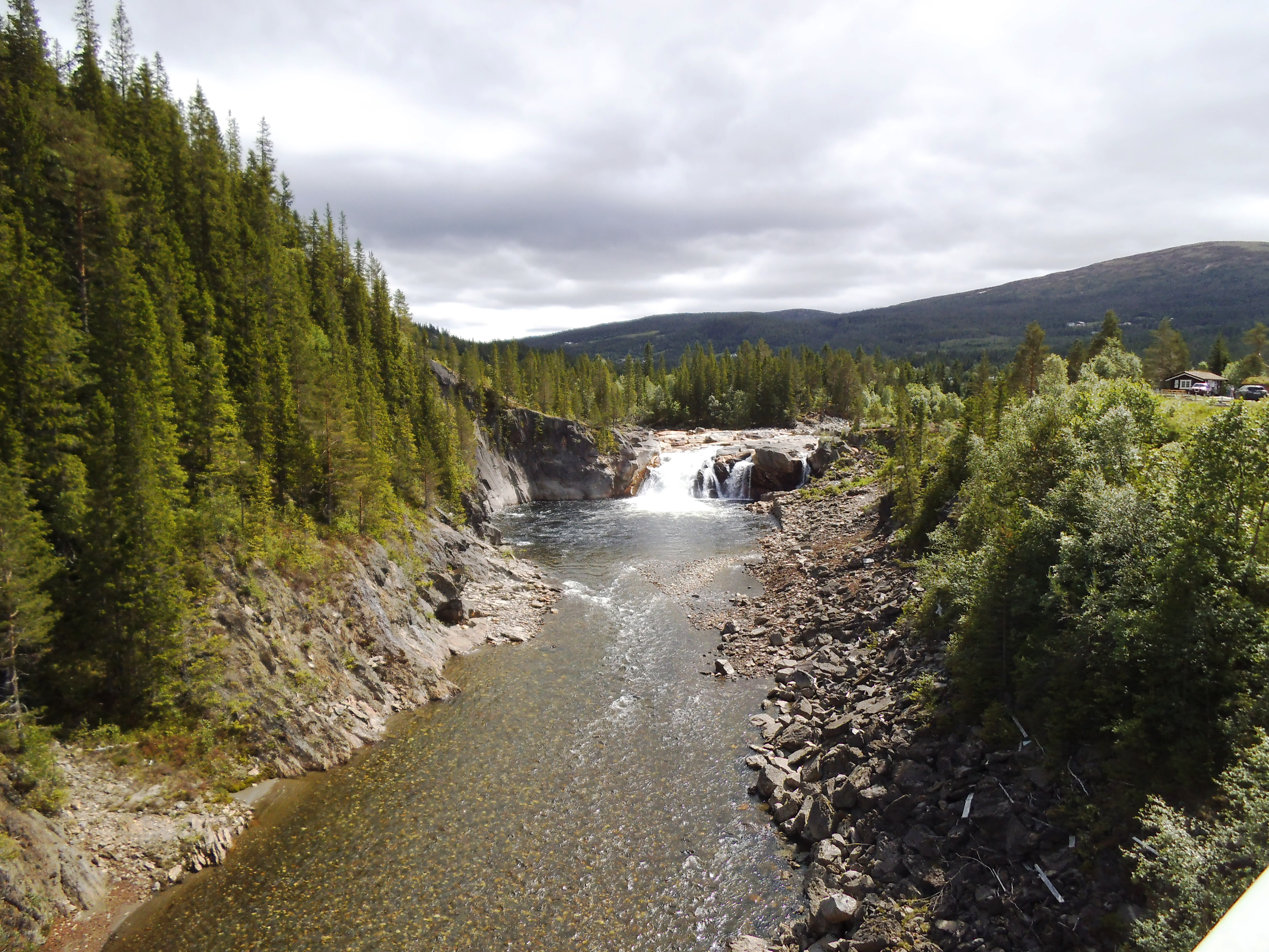 Eafossen is a waterfall in the river Gaula, located in Holtålen, Norway. It was earlier called Hyttfossen.